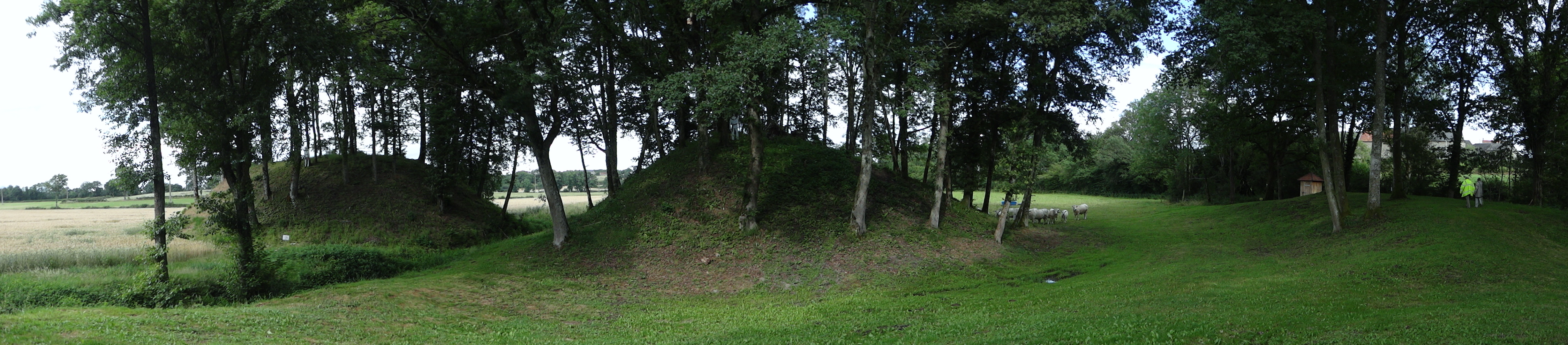 The feudal mottes in the Creusois village of La Tour, Saint-Dizier-La-Tour (23130)